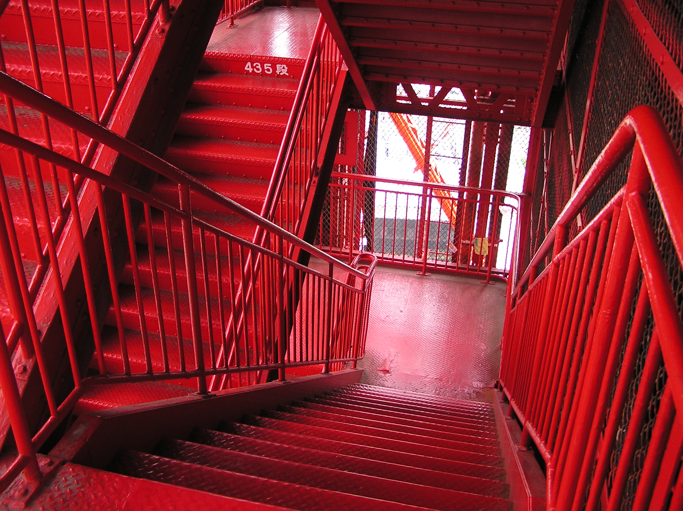 The stairs of Tokyo Tower